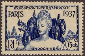 As file